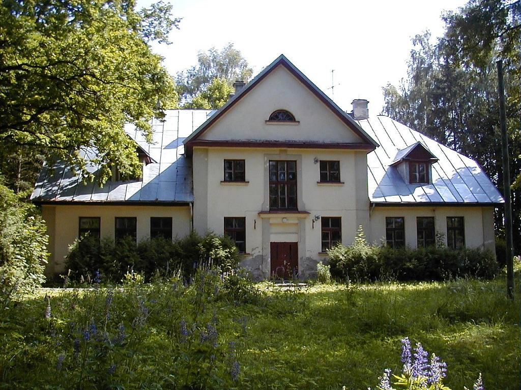 Peterhof manor, managers houseLatviešu: Pēternieku muižas pārvaldnieka māja